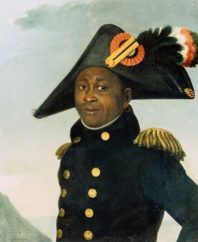 A portrait of Toussaint Louverture Oil on Canvas, 65.1 x 54.3 cm. (25.6 x 21.4 in.)